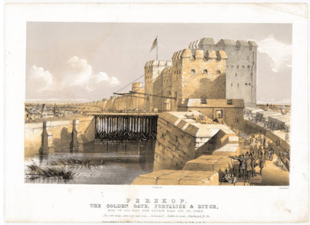 Perekop : the golden gate (Ukraine)